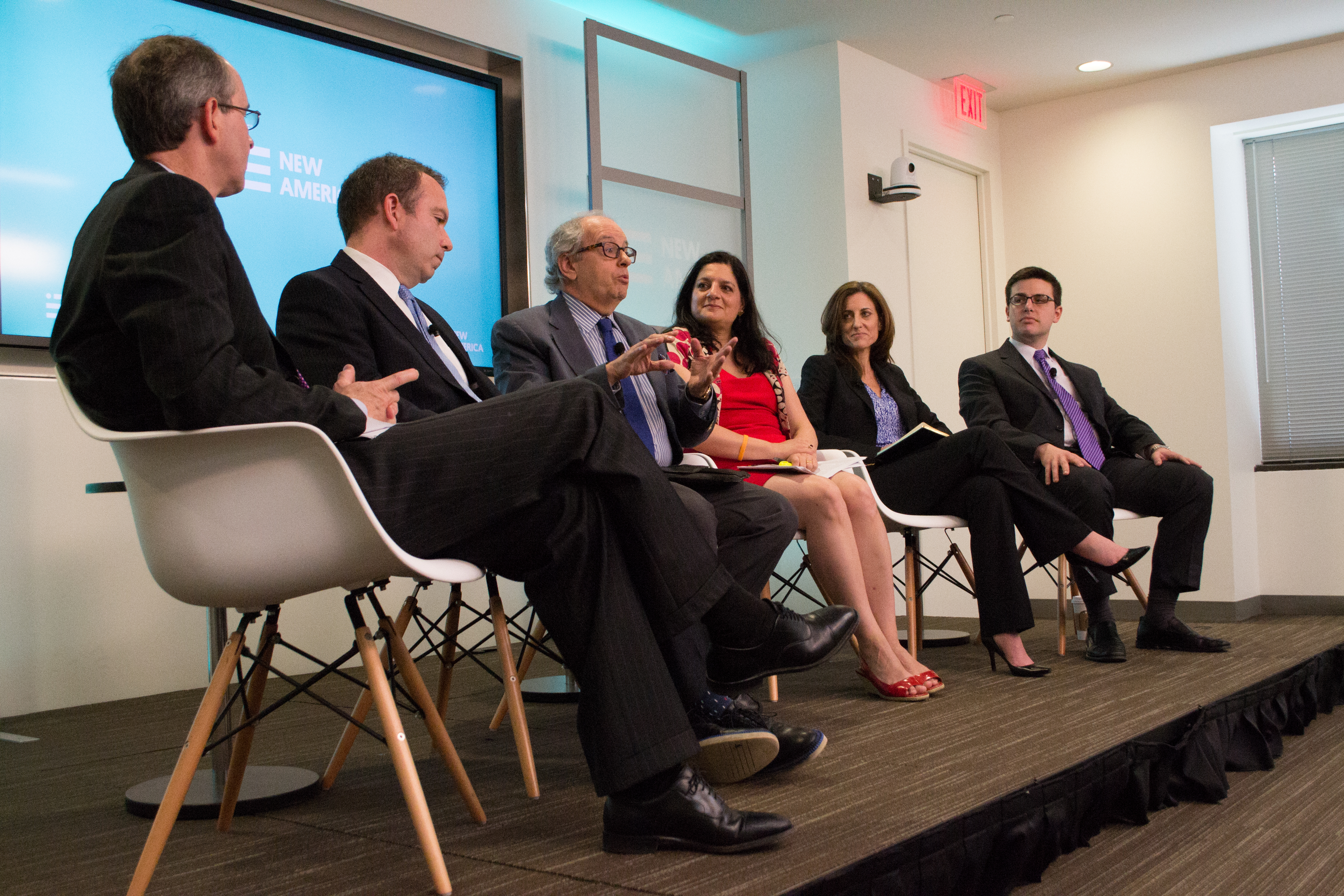 David Gray, Senior Fellow, New America; Dana Milbank, Columnist, Washington Post; Norman Ornstein, Resident Scholar, American Enterprise Institute and Contributing Editor, The Atlantic; Indira Lakshmanan, Columnist/Editorial Writer, The Boston Globe and Contributor, Politico Magazine; Lara Brown, Associate Professor and Program Director of the Political Management Program, Graduate School of Political Management, George Washington University; Matthew Continetti, Editor in Chief, Washington Free Beacon